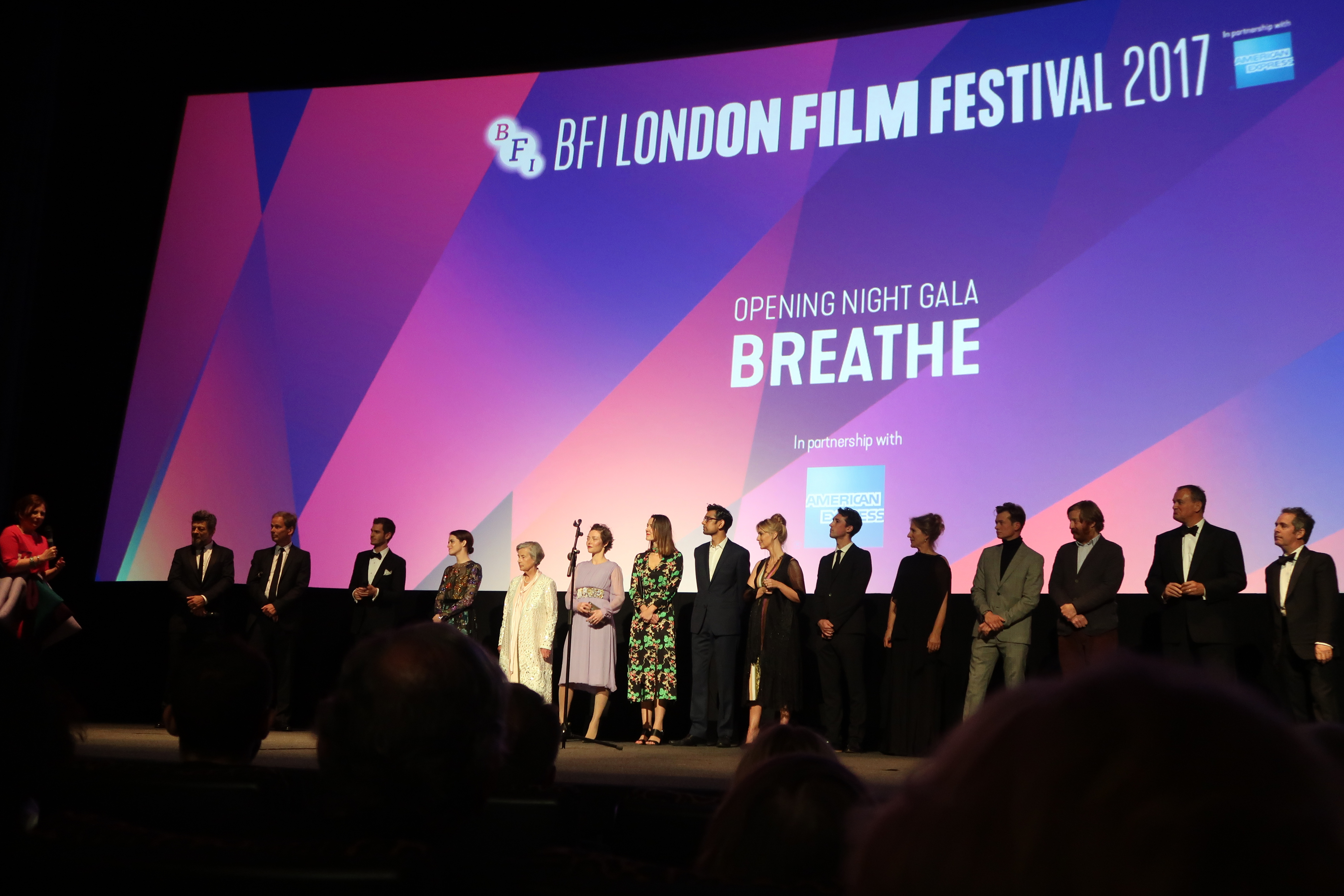 The cast and crew of 'Breathe' at London Film Festival